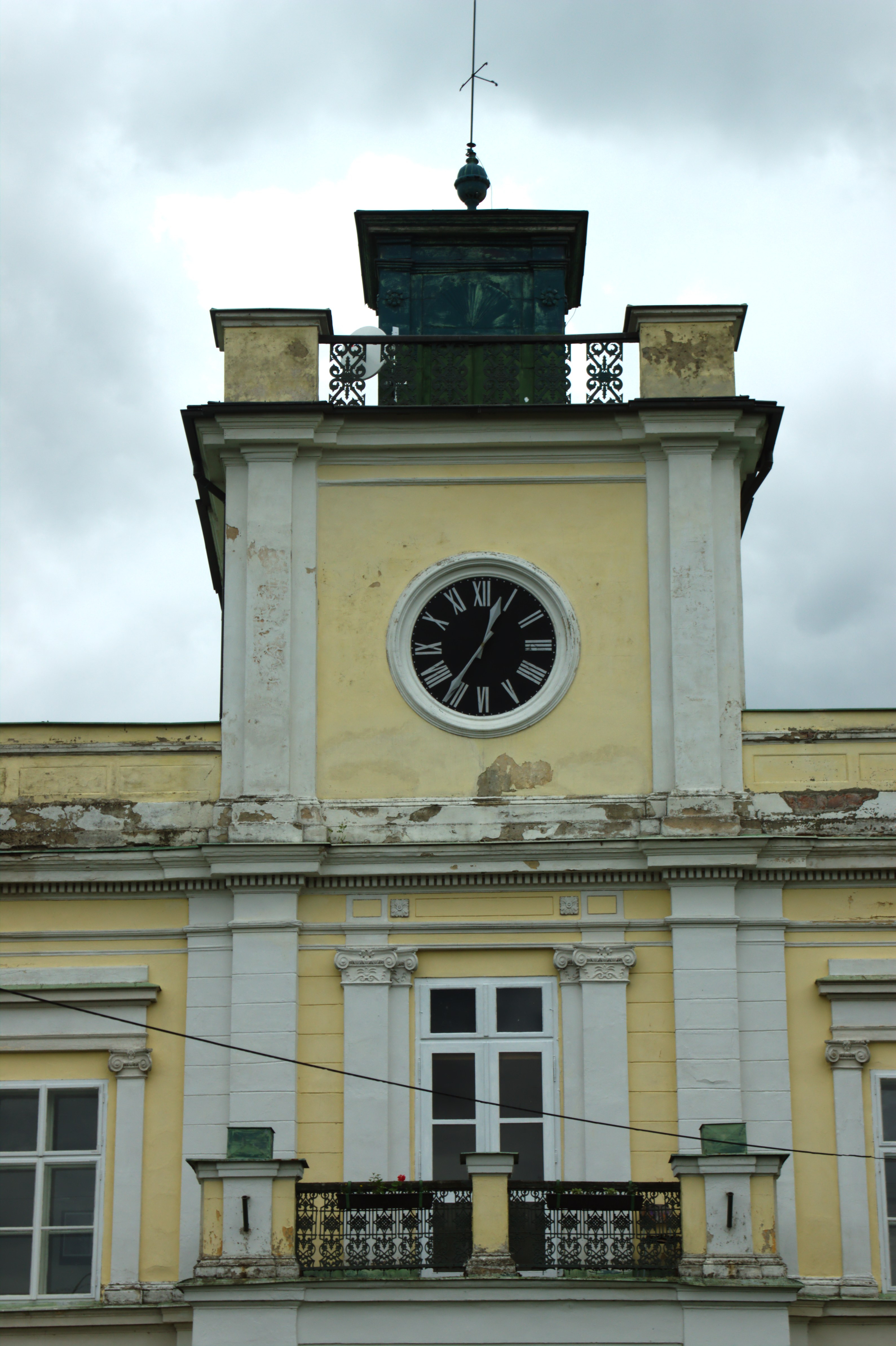 Skalsko mansion tower, Central Bohemian Region, CZ